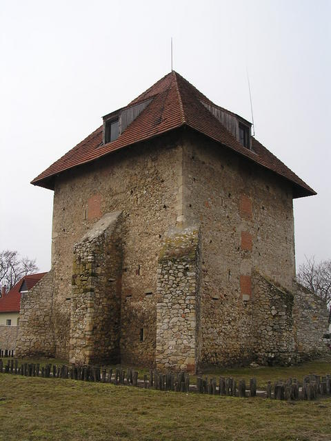 Kula tower from Szabadbattyán; Hungary.